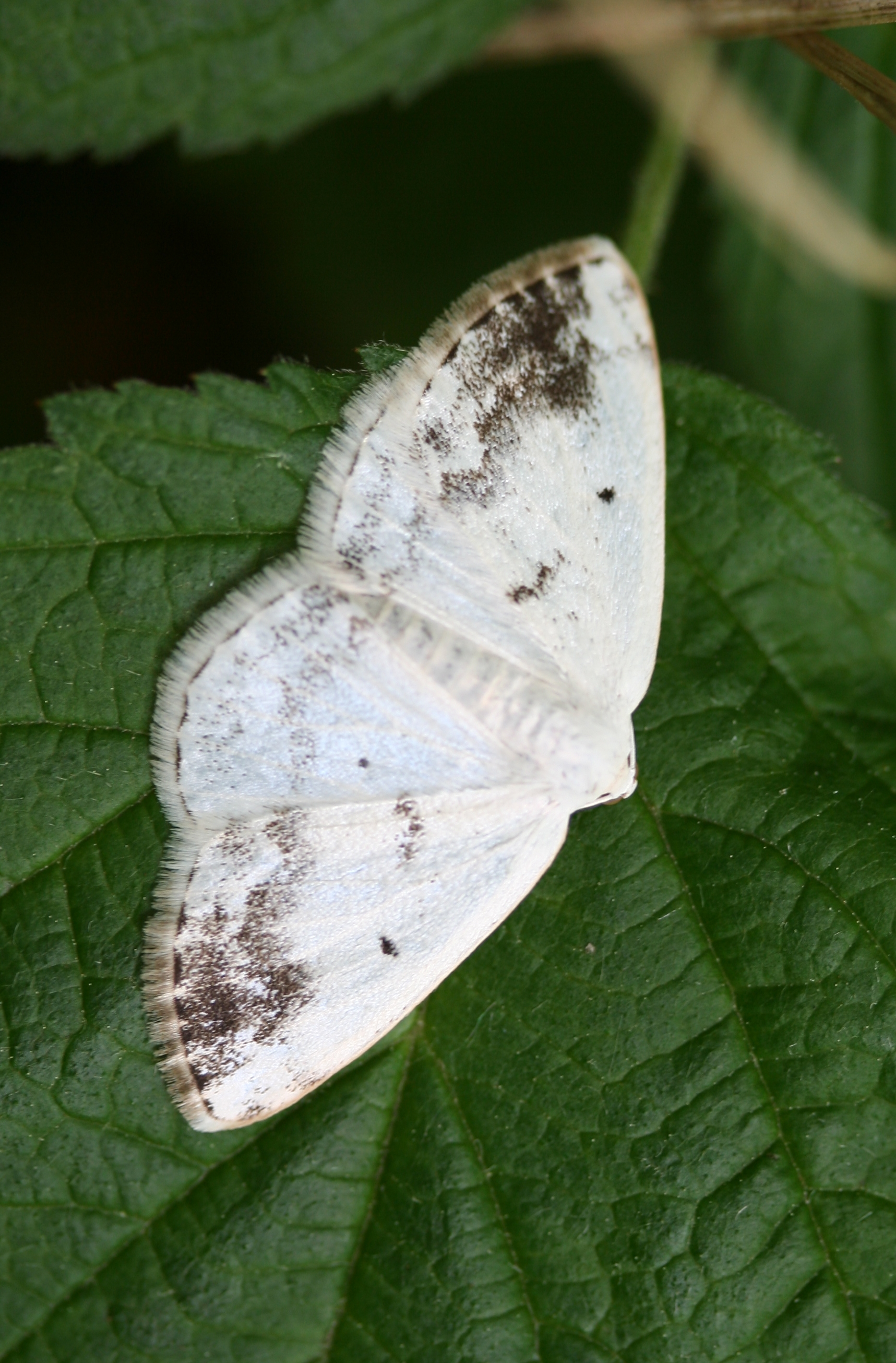 Lomographa_temerata 28 May 2006 IJmuiden, the Netherlands